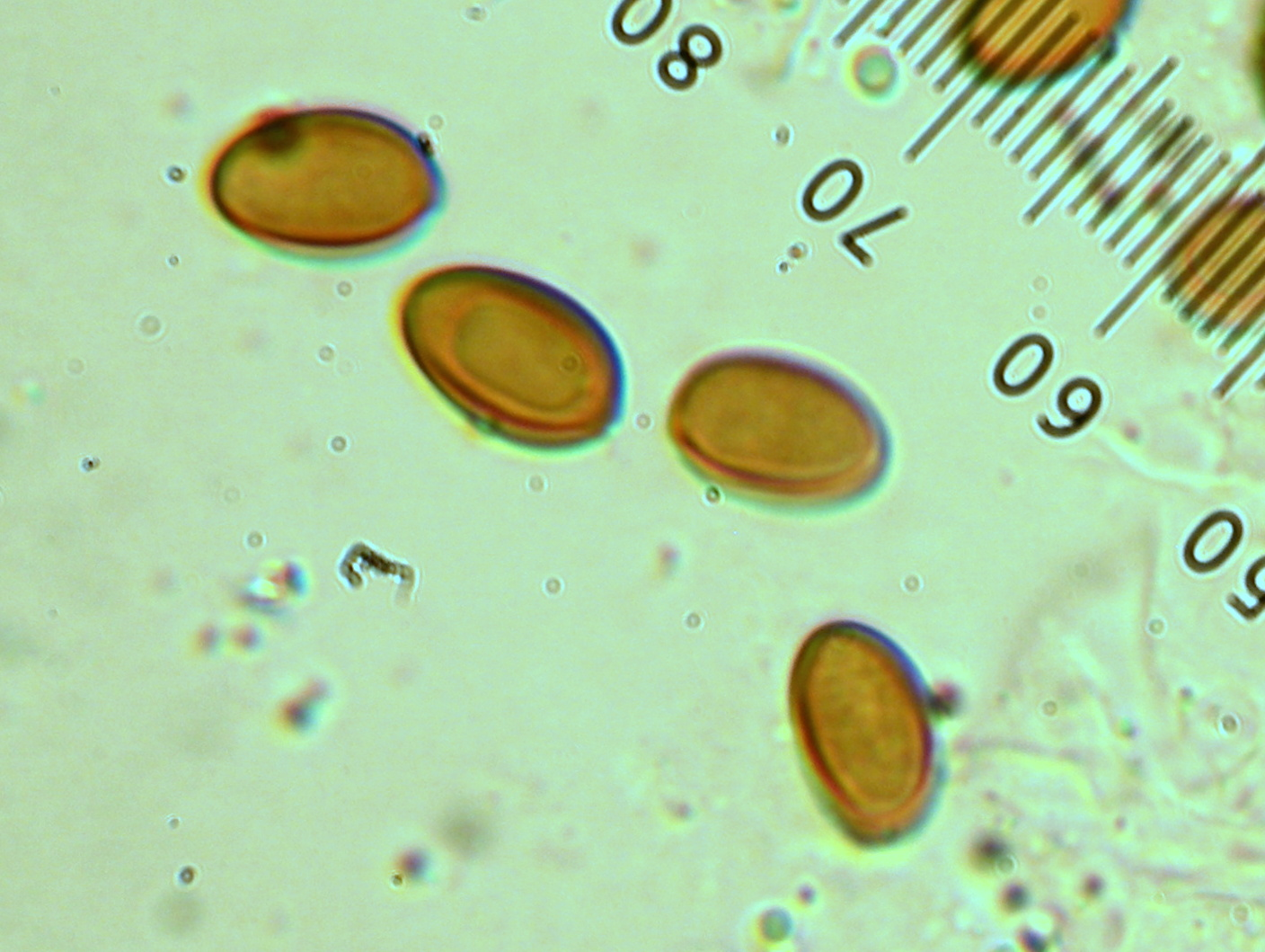 Spore of the secotioid fungus Nivatogastrium nubigenum (Harkn.) Singer & A.H. Sm.